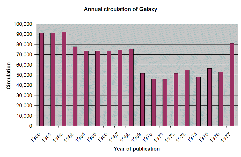 Paid circulation figures for Galaxy from 1960 to 1977. Source data comes from the circulation statements each year, as follows: Year/Circulation of Galaxy/Month in which recorded/Page 1960 91000 Feb-61 63 1961 91000 Apr-62 91 1962 92000 Apr-63 158 1963 77677 Apr-64 151 1964 73536 Feb-65 152 1965 73610 Apr-66 125 1966 73400 Apr-67 81 1967 74700 Feb-68 78 1968 75300 Jan-69 115 1969 51479 Dec-69 89 1970 46091 Jan-71 129 1971 45598 Jan-72 175 1972 51602 Jan-73 75 1973 54524 Dec-73 176 1974 47789 Feb-75 158 1975 56361 Feb-76 154 1976 52831 Apr-77 112 1977 81035 Dec/Jan 77-78 160 Note that the data does not come from a calendar year. The statements were each sworn on October 1 of the preceding year. The circulation figures could take two or three months to come in, since it was necessary to wait for returns from news stands to know what the paid circulation was. Hence the information for the year marked 1972, above, may actually be for a twelve-month period from about July 1971 to June 1972.